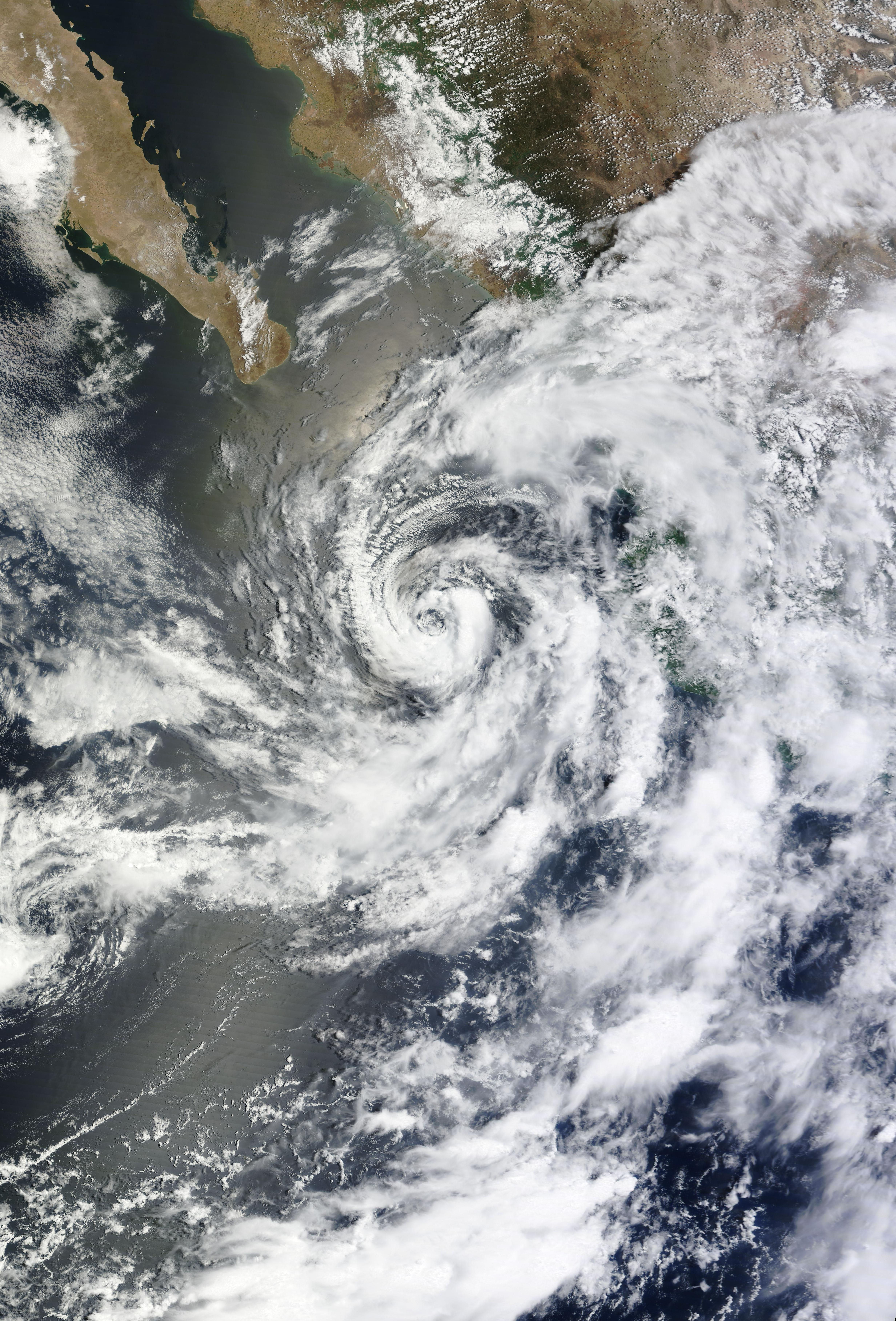 Tropical Storm Erick in the northeastern Pacific on July 7, 2013.